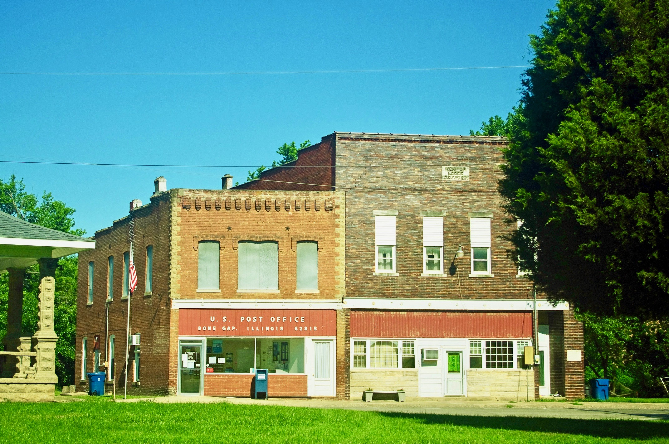 Post office (left) and Independent Order of Odd Fellows (I.O.O.F) Monitor Lodge No. 235 building in Bone Gap, Illinois, United States.